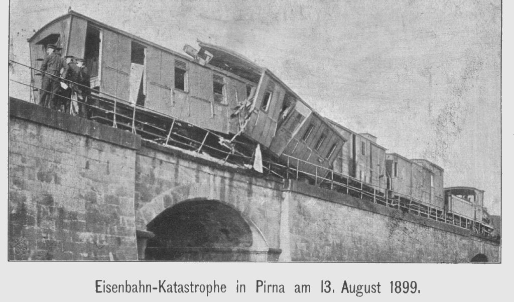 railway accident in Pirna, 1899